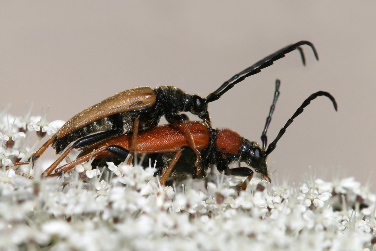 Description: The longhorn beetles or long-horned beetles (Cerambycidae) are a cosmopolitan family of beetles, typically characterized by extremely long antennae, which are often as long as or longer than the beetle's body. In various members of the family, however, the antennae are quite short (e.g., Parandra brunnea, figured below) and such species can only be recognized with difficulty from related beetle families such as Chrysomelidae. As shown a Stictoleptura_rubra couple, mating